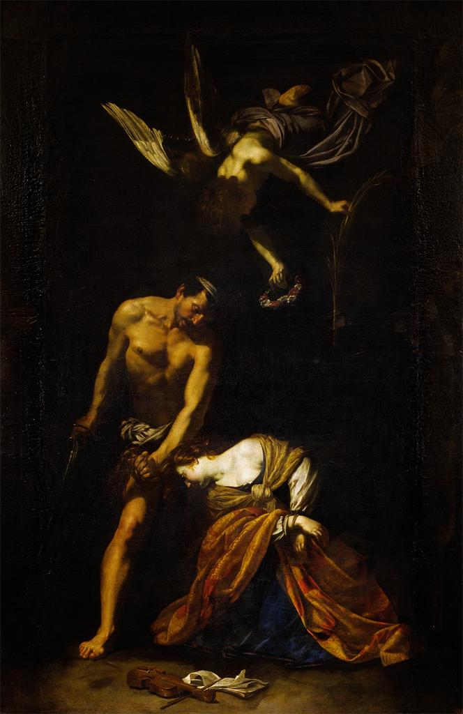 Martyrdom of St. Cecilia